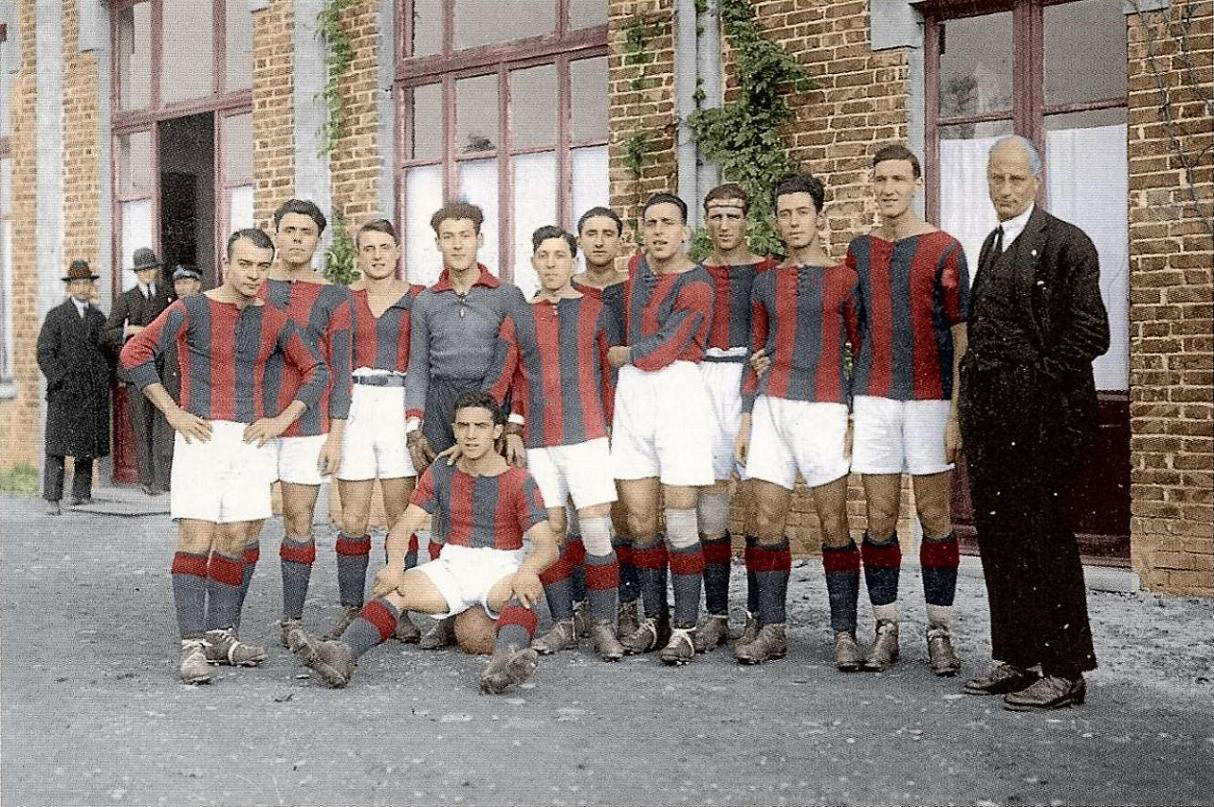 Turin (Italy), Juventus Ground, November 9, 1924. The line-up of Bologna F.C., here posing outside the stadium, took to the pitch in the away defeat versus F.B.C. Juventus (1-2), Matchday 6 of the Italian League 1924–25 Prima Divisione, Northern League, group B. From left to right, standing: A. Pozzi, G. Muzzioli, P. Genovesi, M. Gianni, B. Perin, A. Schiavio, G. Della Valle, G. Borgato, G. Spadoni, G. Baldi, H. Felsner (coach); crouched: F. Gasperi.